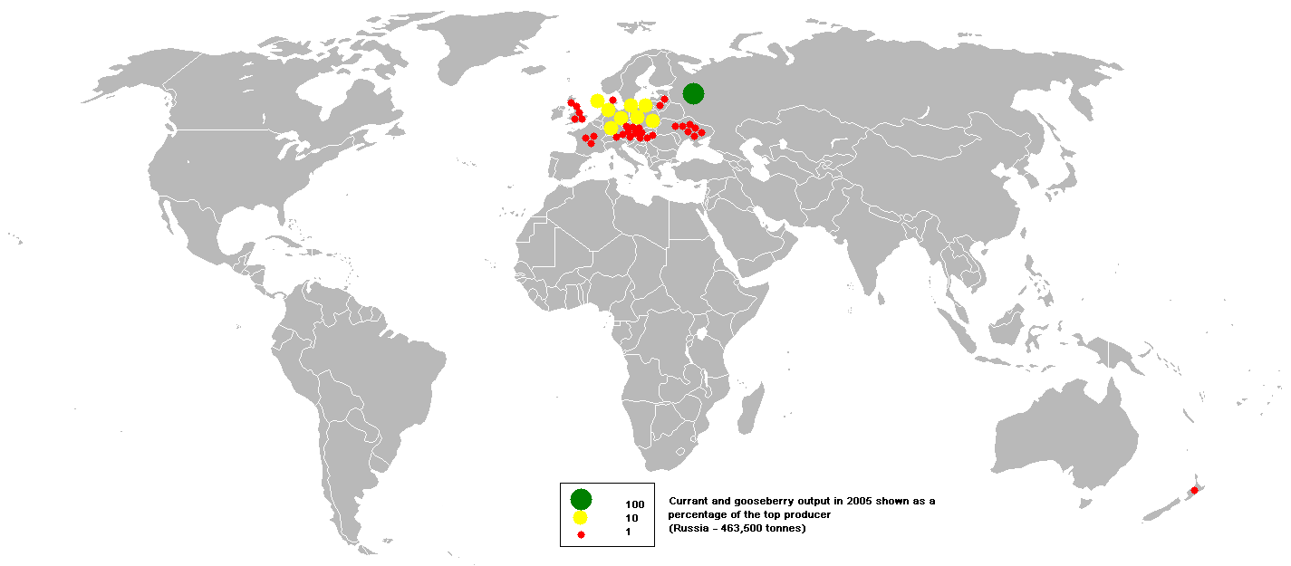 This bubble map shows the global distribution of currant and gooseberry output in 2005 as a percentage of the top producer (Russia - 463,500 tonnes). This map is consistent with incomplete set of data too as long as the top producer is known. It resolves the accessibility issues faced by colour-coded maps that may not be properly rendered in old computer screens. Data was extracted on 18th June 2007 from Based on :Image:BlankMap-World.png